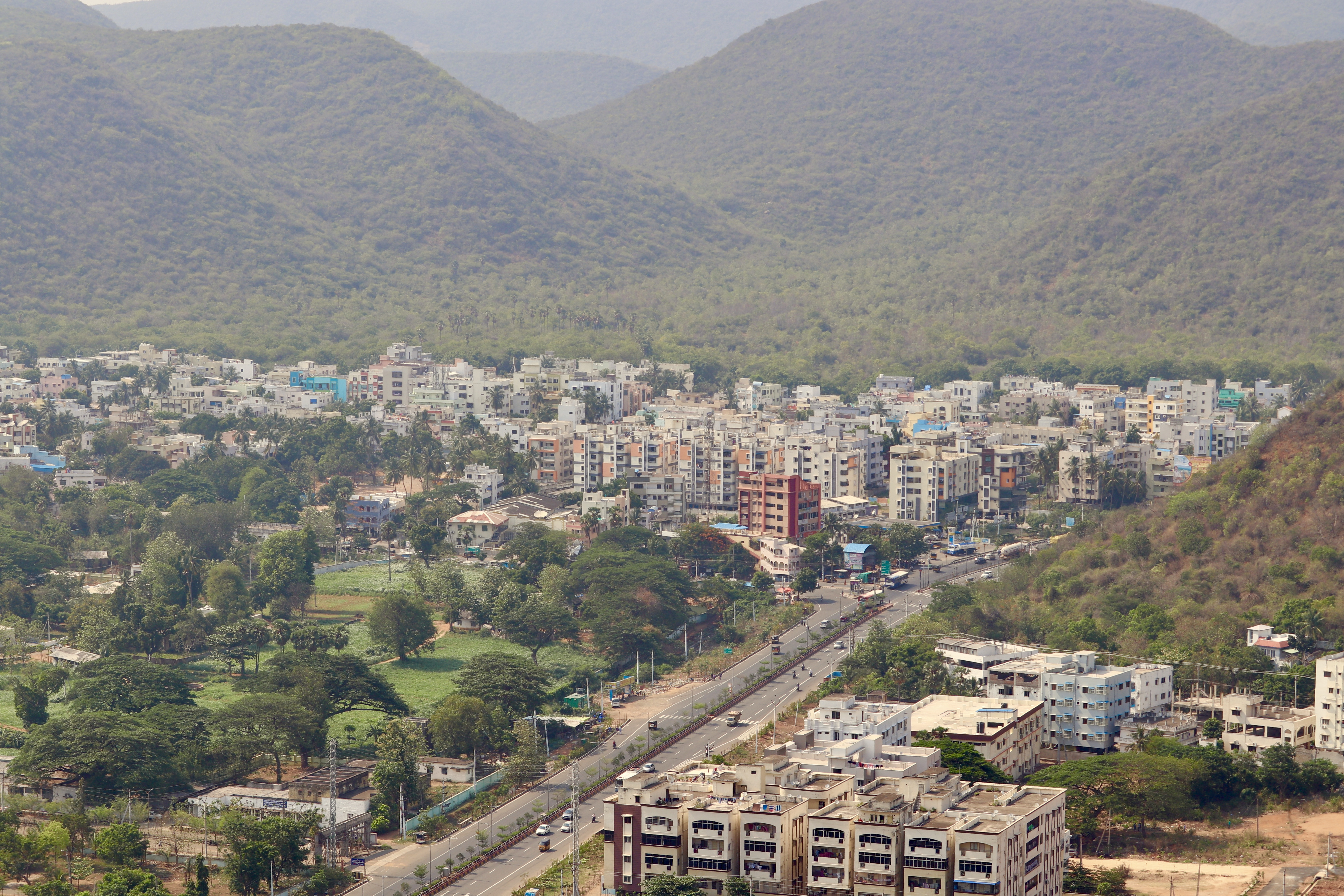 A view of Adarsh Nagar in Visakhapatnam from Kailasagiri